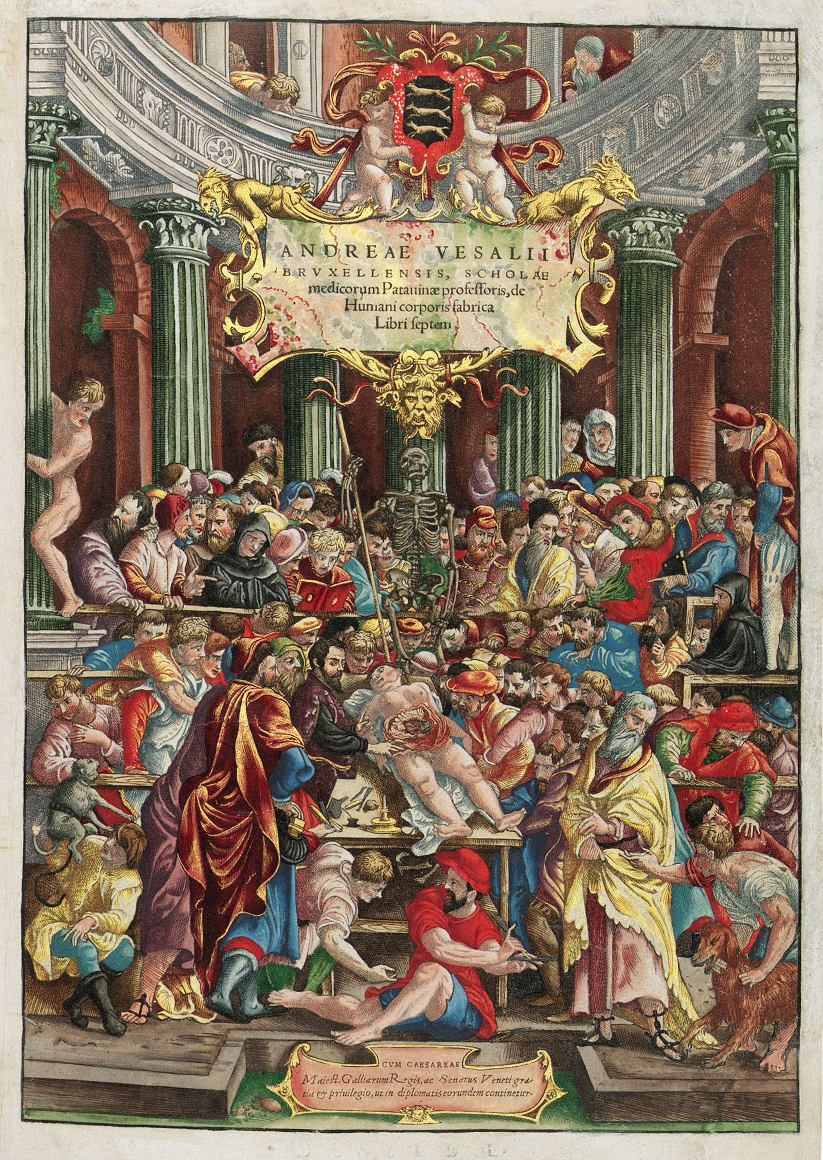 Hand-colored woodcut Andreas Vesalius (1514-1564) De humani corporis fabrica libri septem Basel: Johannes Oporinus, 1543 Courtesy of an Anonymous Private Collector; photo courtesy of Christie's, New York Dedication copy presented by Vesalius to Charles V (1500-1558), Holy Roman Emperor